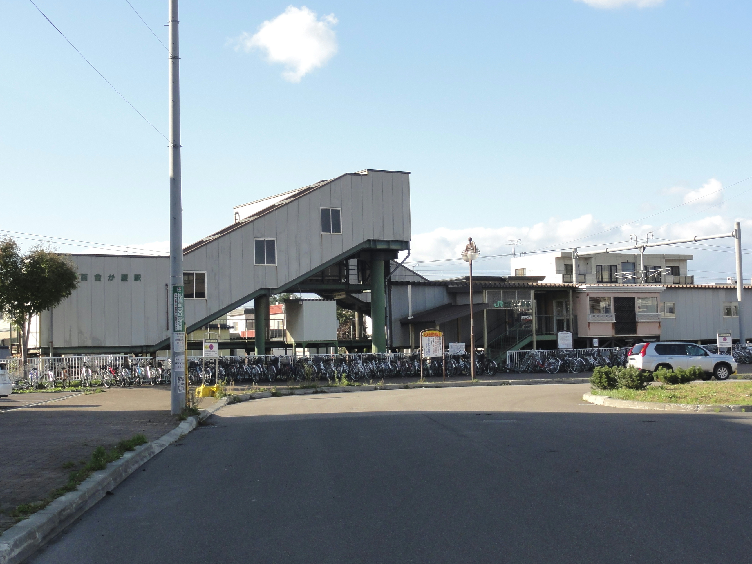 East entrance of Yurigahara Station on the Sasshō Line (Kita-ku, Sapporo, Hokkaido)